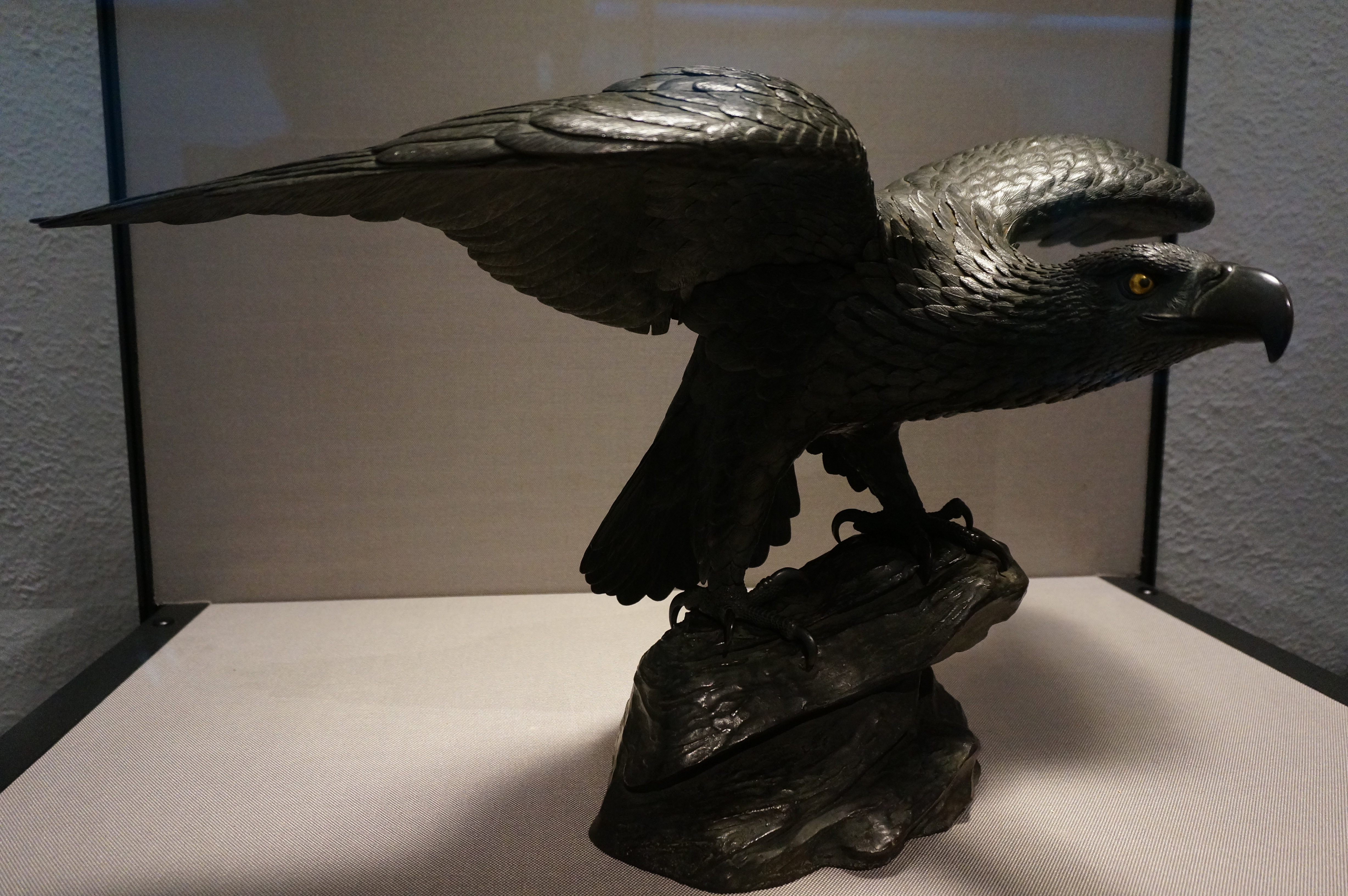 Eagle, By Suzuki Chokichi, Dated 1892. Tokyo National Museum